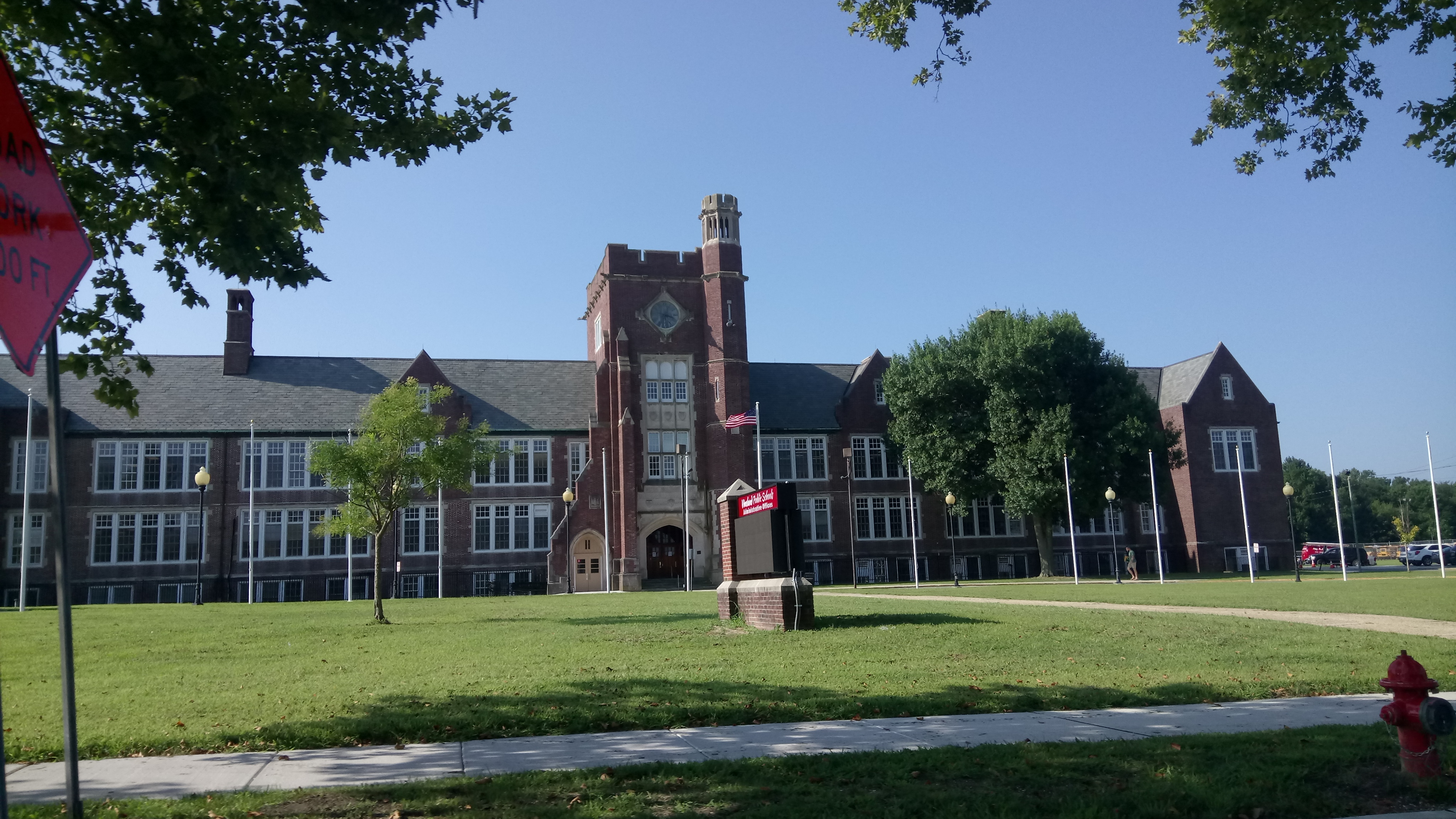 Vineland School District offices